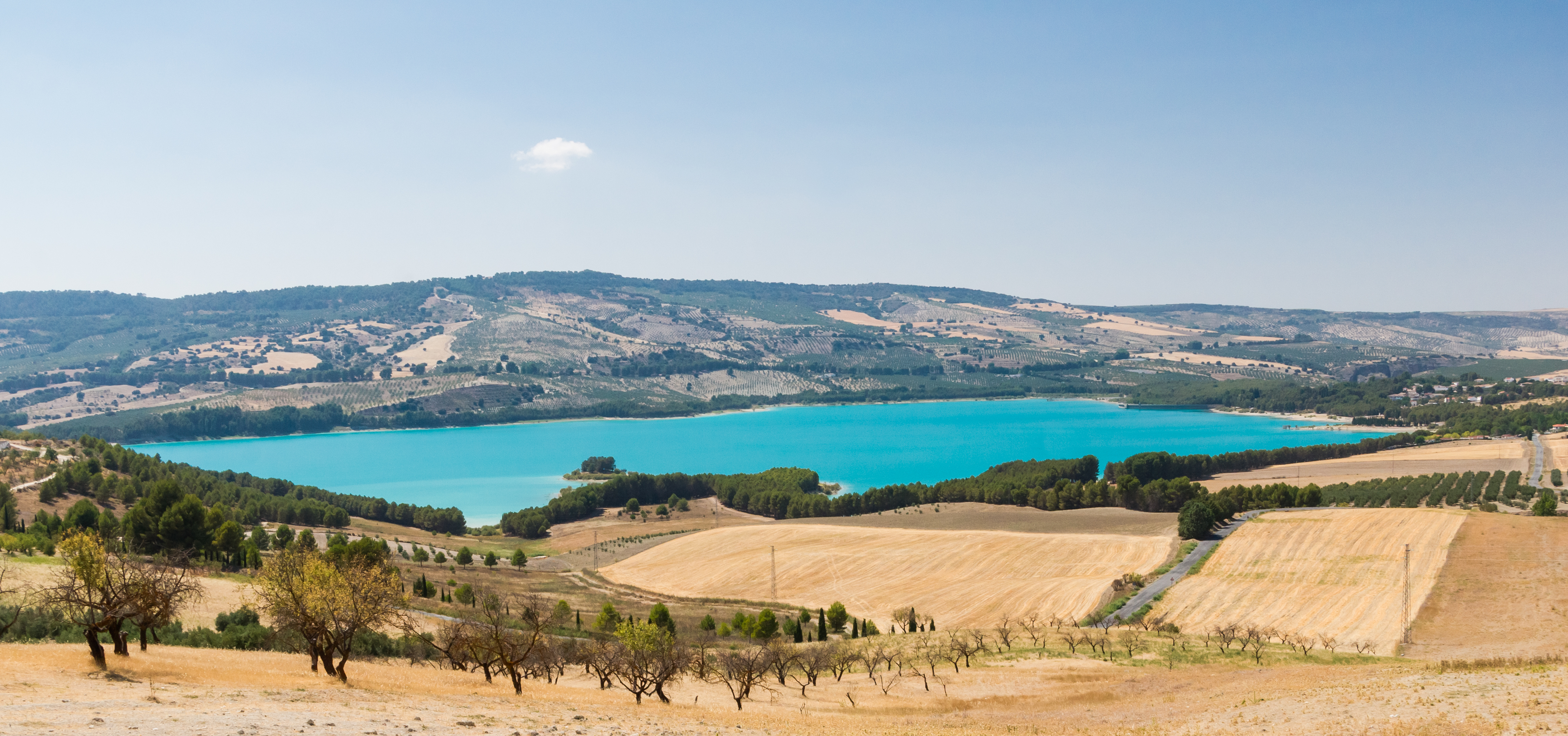 Overview embalse de los Bermejales, Andalusia, Spain